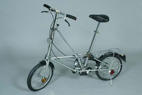 A folding bicycle in the permanent collection of The Children’s Museum of Indianapolis